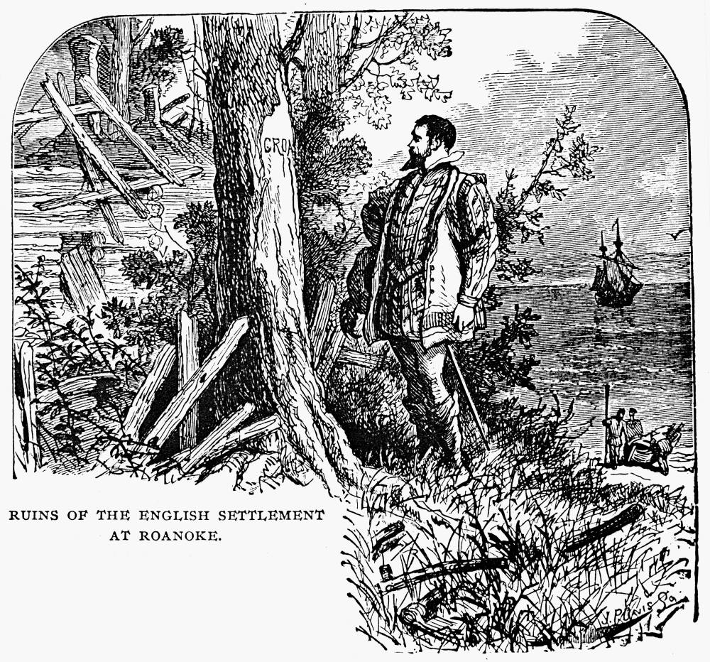 Engraving by John Parker Davis, depicting John White finding the ruins of the Roanoke colony in 1590. White's report described a tree marked "CRO" and a pallisade with "CROATOAN" inscribed near the entrance; the artist has evidently taken some liberties with these events.